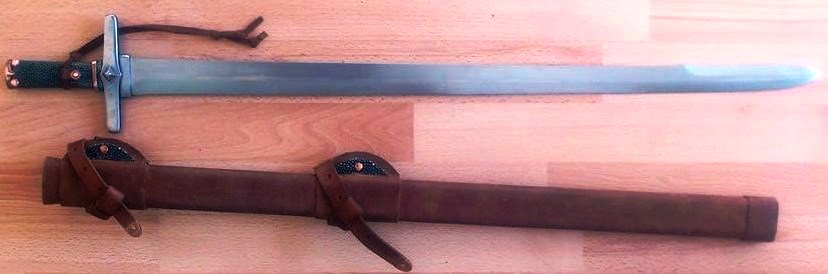 A present-day replica by Milen Petrov